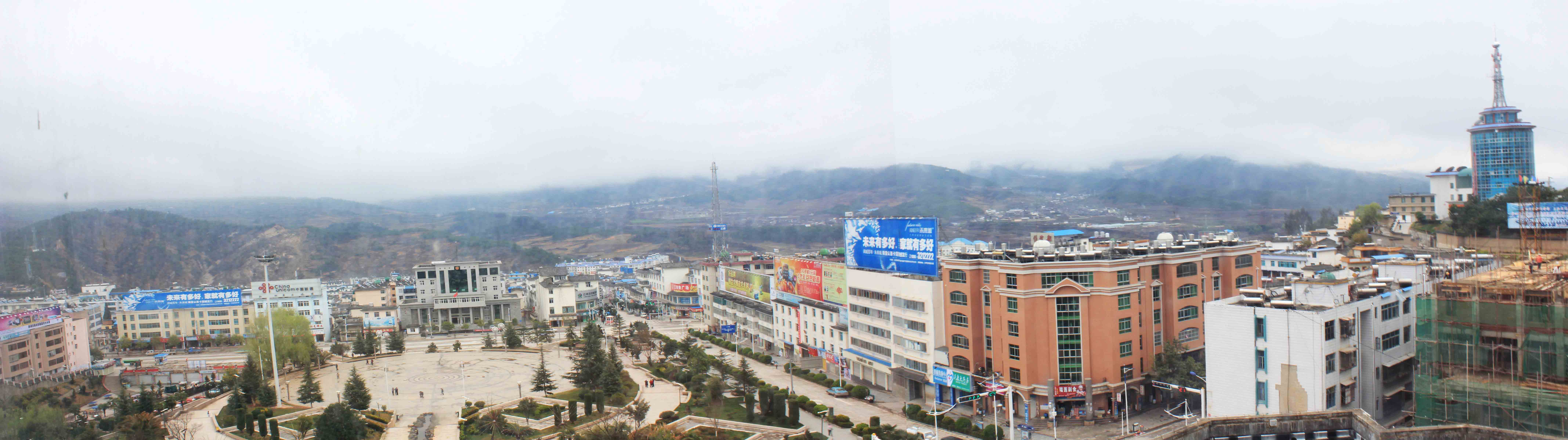 The Skyline of Jinding Town，Lanping County，Yunnan Province，China。